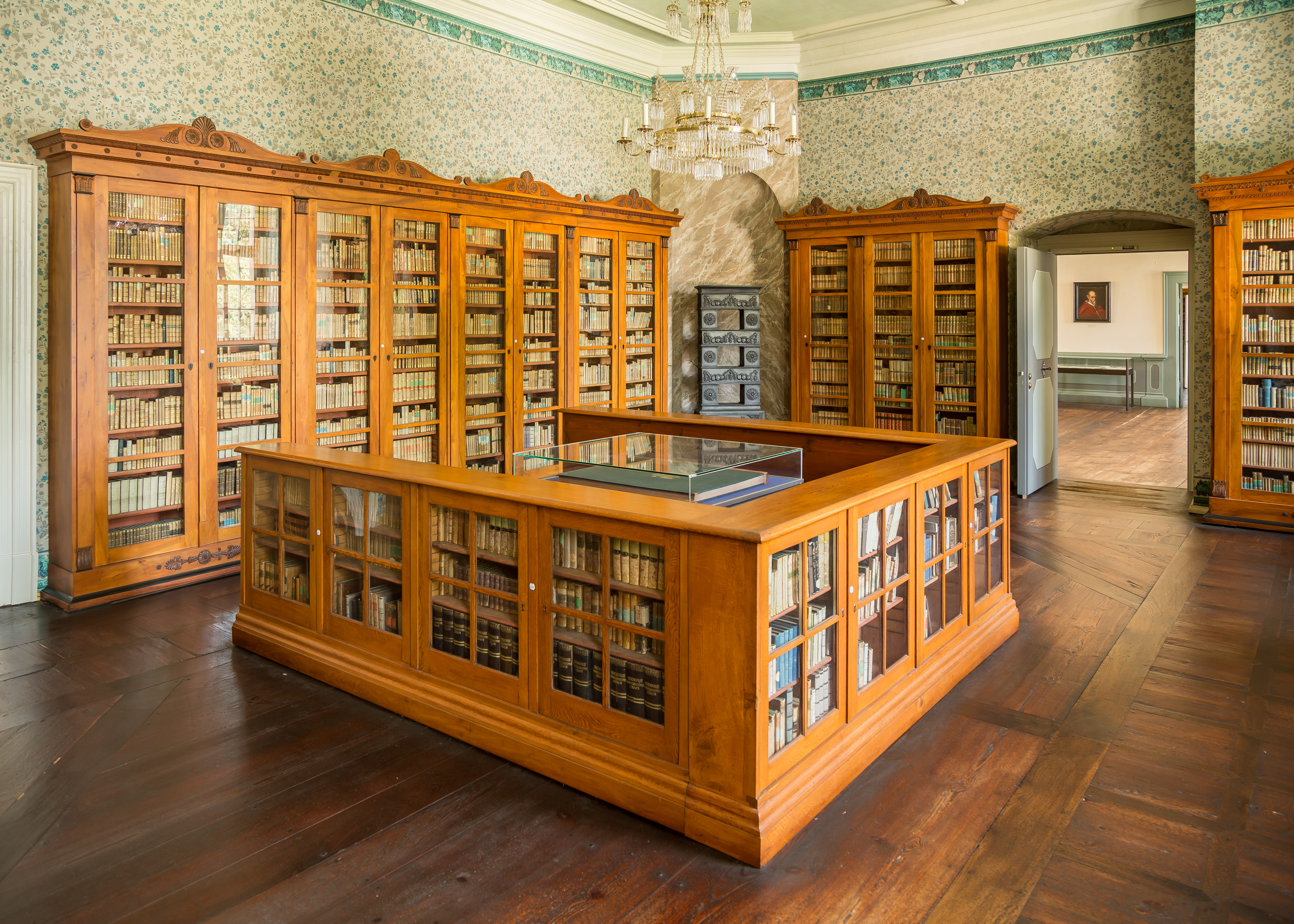 Höxter, Germany: The princely library of Castle Corvey